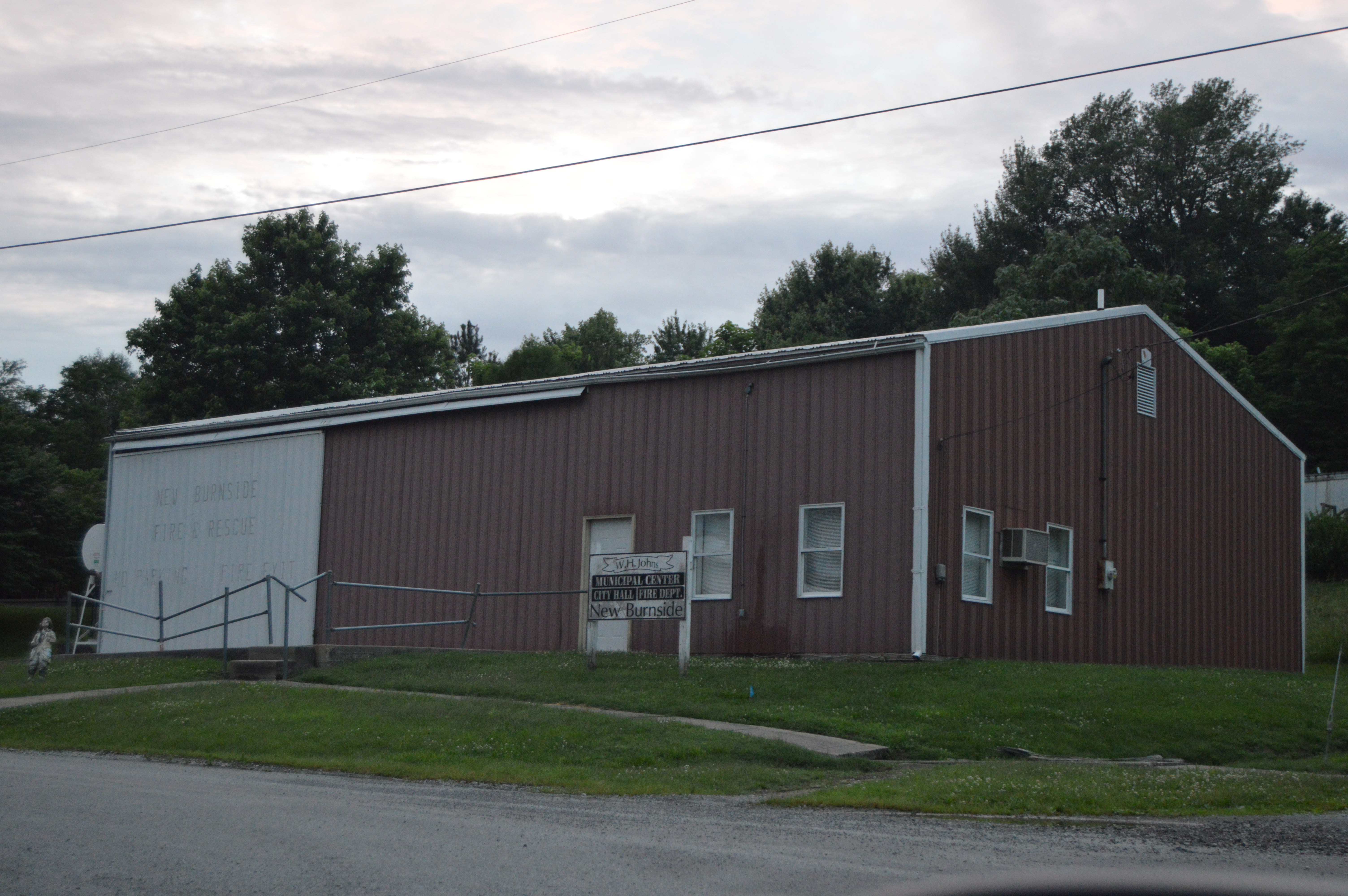 Southeastern and northern sides of the New Burnside municipal building, located at the intersection of Second and Vine Streets in New Burnside, Illinois, United States.